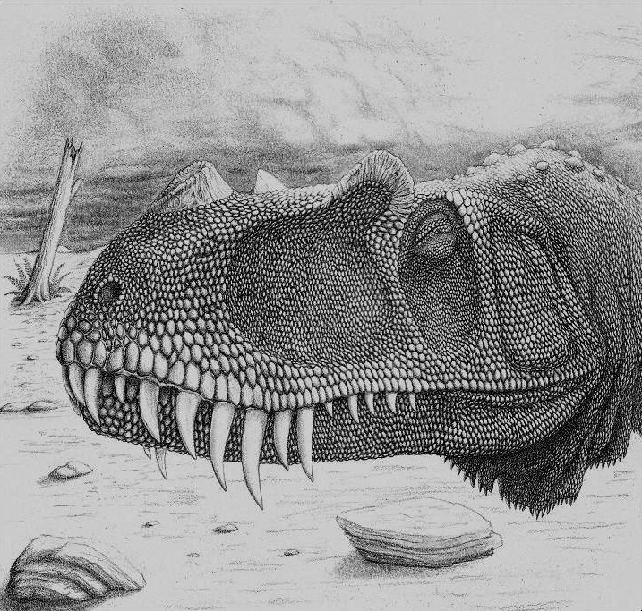 Ceratosaurus Juvenile